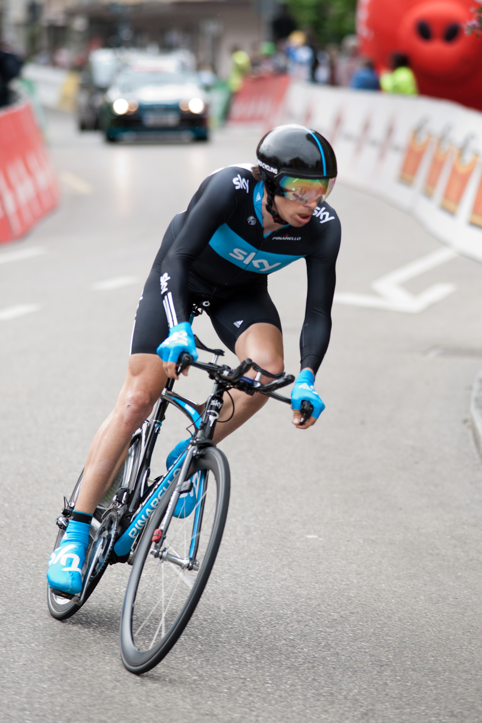 Dario Cioni during the 3rd stage of the Tour de Romandie 2010.